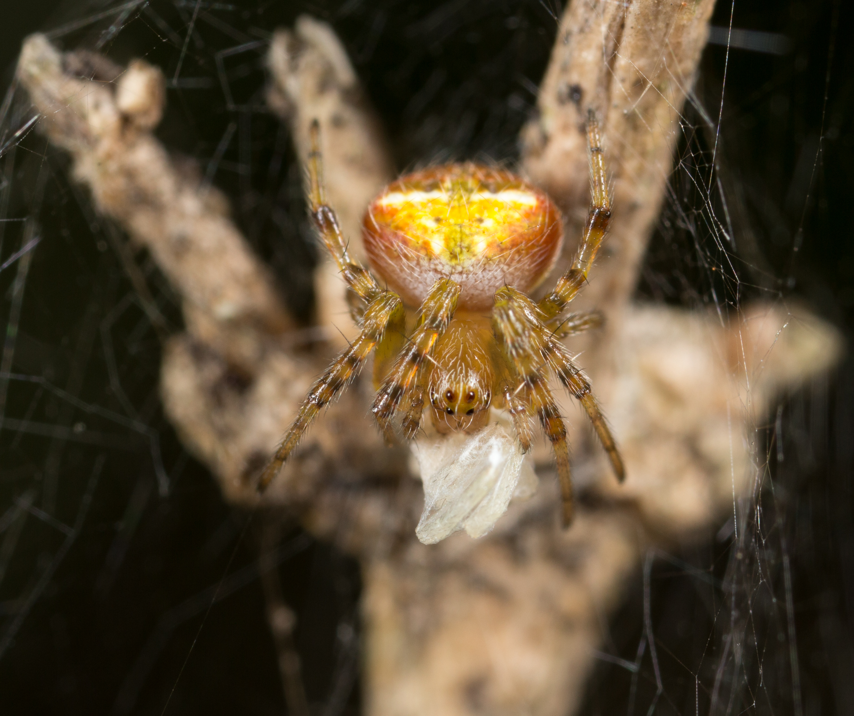 White winged orb weaver